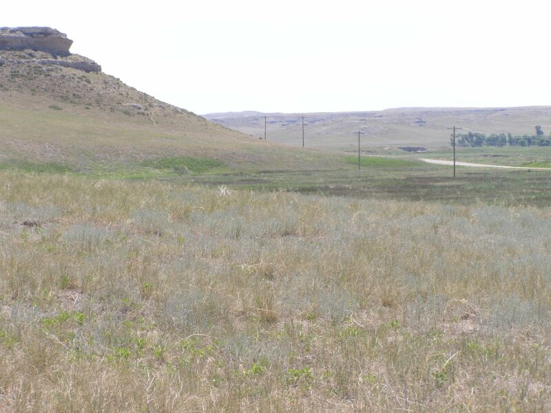 The Upper Niobrara River Valley at Agate Fossil Beds Nat'l Monument